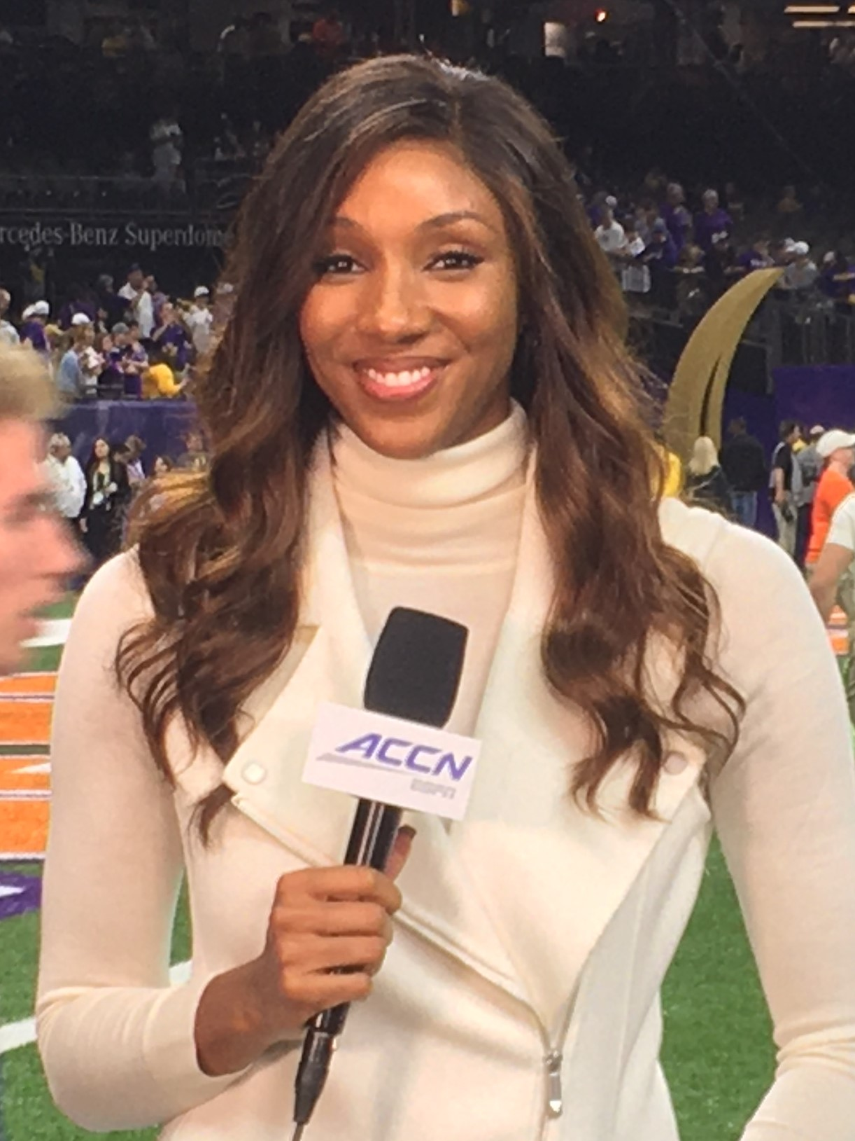 Maria Taylor, ESPN commentator, at the 2020 College Football Playoff National Championship in the Mercedes-Benz Superdome in New Orleans.